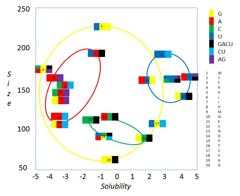 Simplified diagram showing codon bias in hydropathy - molar volume space. The strongest components (bias) for the encoding of anino acid residues are, in order: C in 2nd position = small size, medium hydropathy U in 2nd position = average size, hydrophobic A in 2nd position = average size, hydrophilic G in 2nd position = outlier Frank Layden (talk) 17:11, 16 October 2013 (UTC) The y-axis is accurate (cubic Angstroms), but the x-axis could have some error from estimates of hydropathy. More drawings and raw data at Redrawn from Figure 4 in which attributes the graph to Yang, M. M., W. J. Coleman and D. C. Youvan. 1990. In Reaction Centers of Photosynthetic Bacteria. M.-E. Michel-Beyerle. (Ed.) (Springer-Verlag, Germany) p209-218; listed by Google at [1]